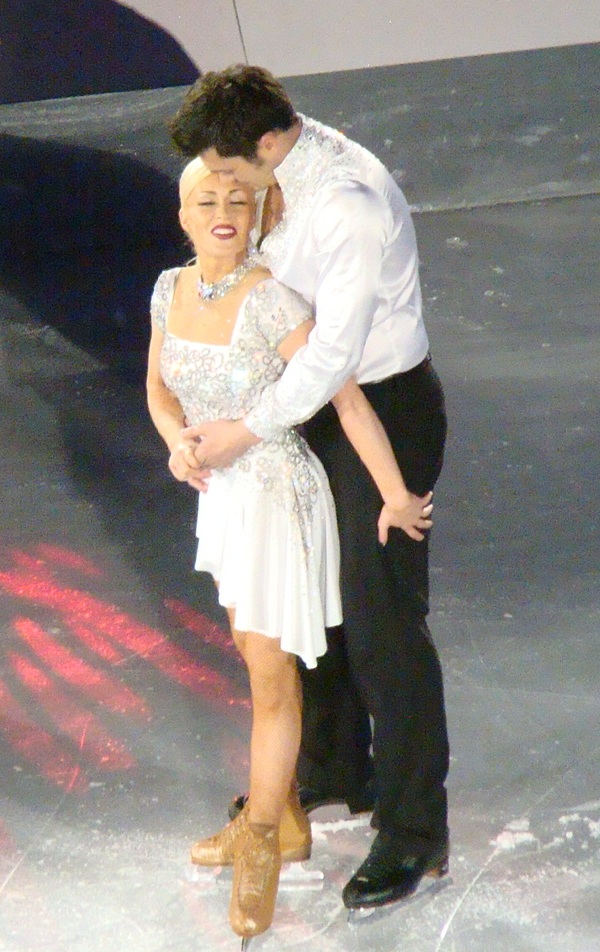 Sam Attwater and Brianne Delcourt on the Dancing on Ice tour at Manchester M.E.N Arena.